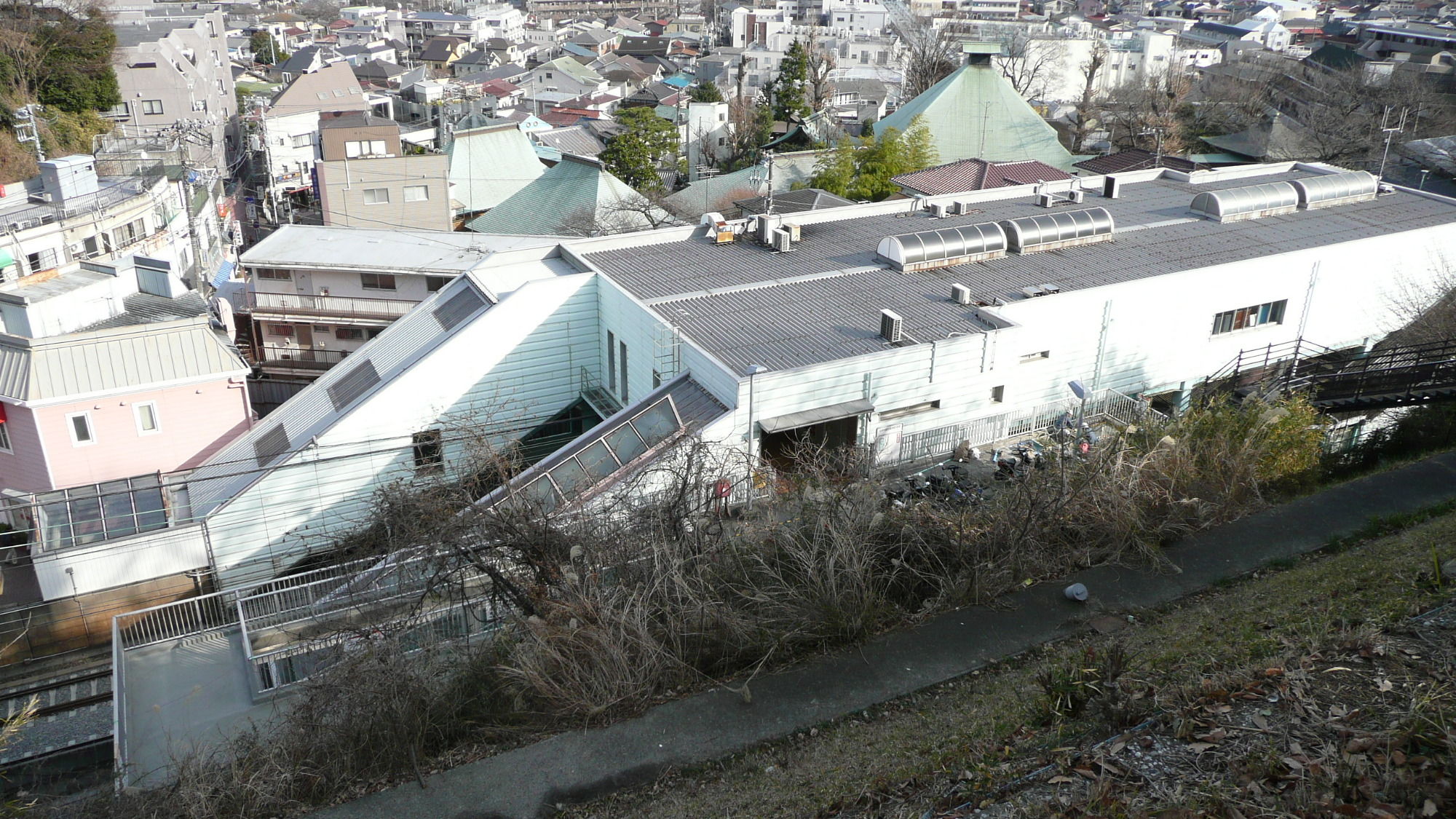 Keihin Electric Express Railway,Main Line,Gumyoji Station. / 弘明寺公園から見た京浜急行電鉄本線弘明寺駅